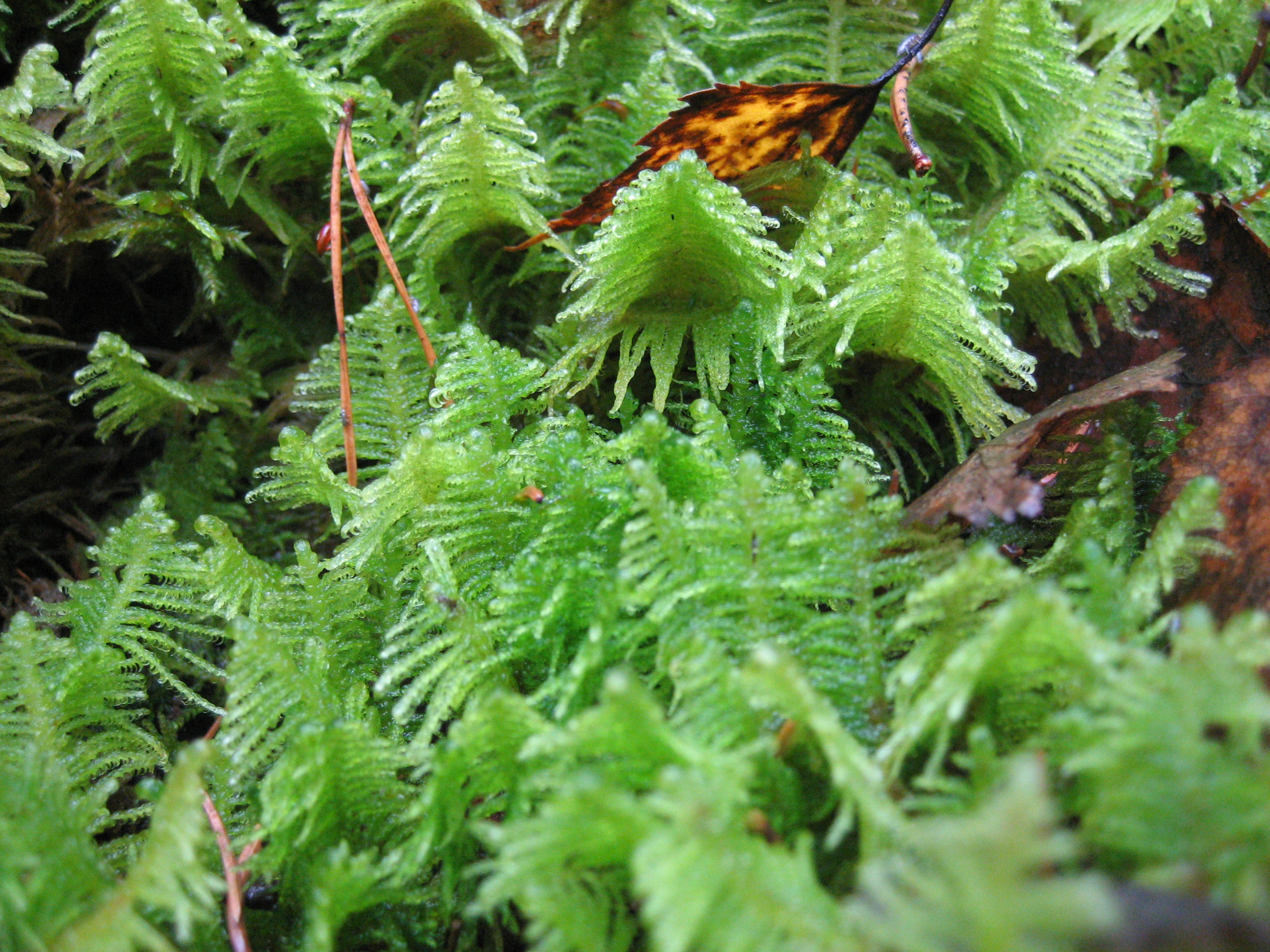 Ptilium crista-castrensis on the floor of boreal forest in Satakunta, Finland. On the top of the moss, there are dead needles of Scots pine (Pinus sylvestris) and a dead leaf of silver birch (Betula pendula)